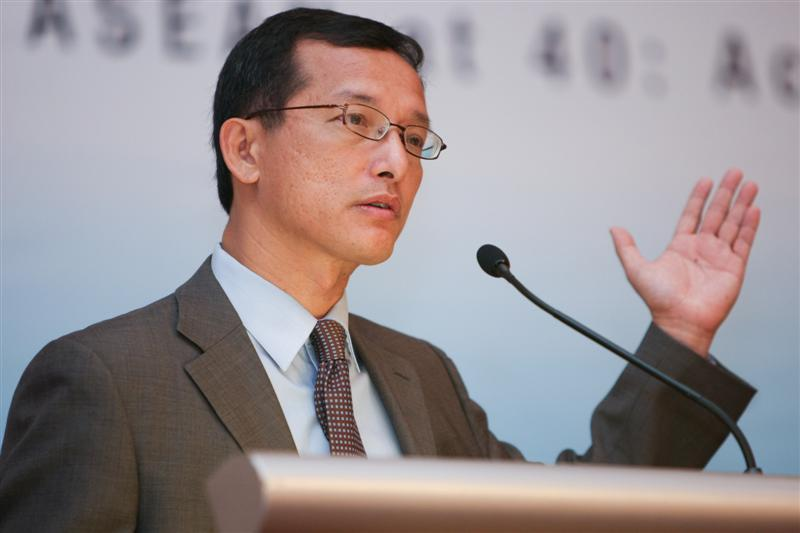 Simon Seong Chee Tay (born 1961), a Singaporean law professor, author, and former Nominated Member of Parliament, photographed at the ASEAN Day Forum 2007.